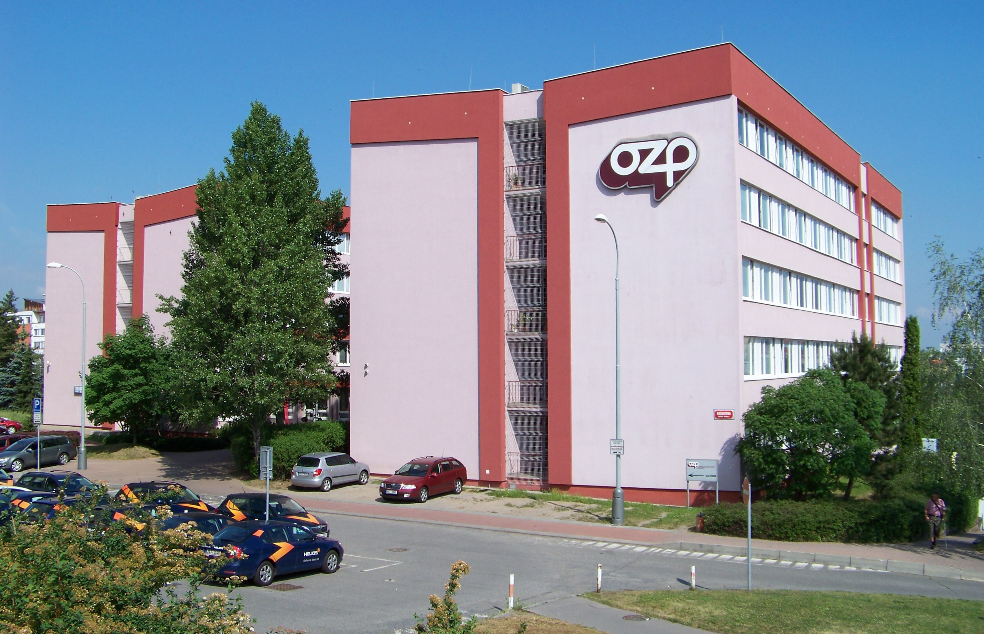 Prague-Braník, the Czech Republic. Roškotova 1225/1, Oborová zdravotní pojišťovna zaměstnanců bank, pojišťoven a stavebnictví.